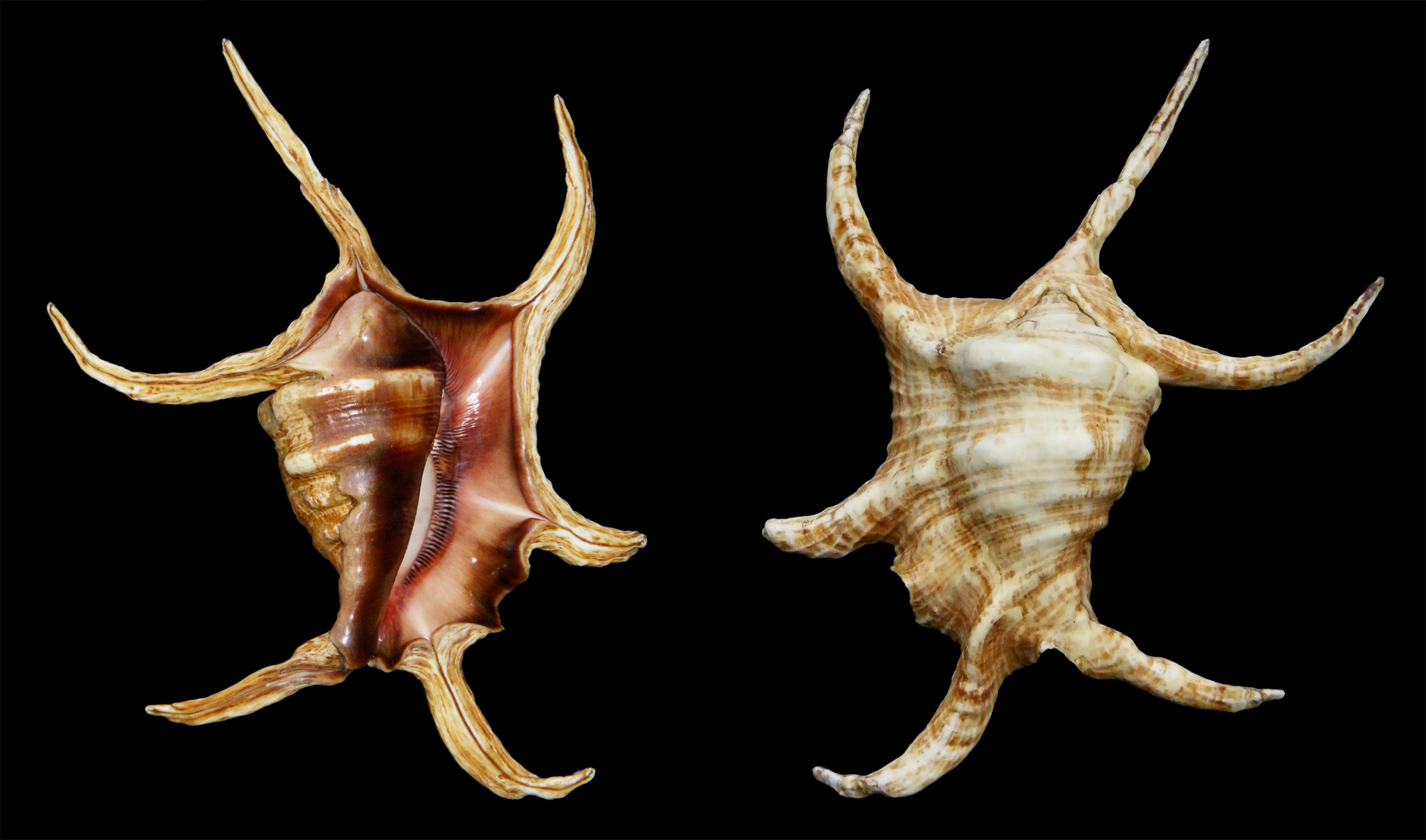 Harpago chiragra (synonym :Lambis chiragra chiragra) (Linnaeus, 1758), dark Sri Lanka form (female), Hikkaduwa Sri Lanka, in 1992. 27 cm.